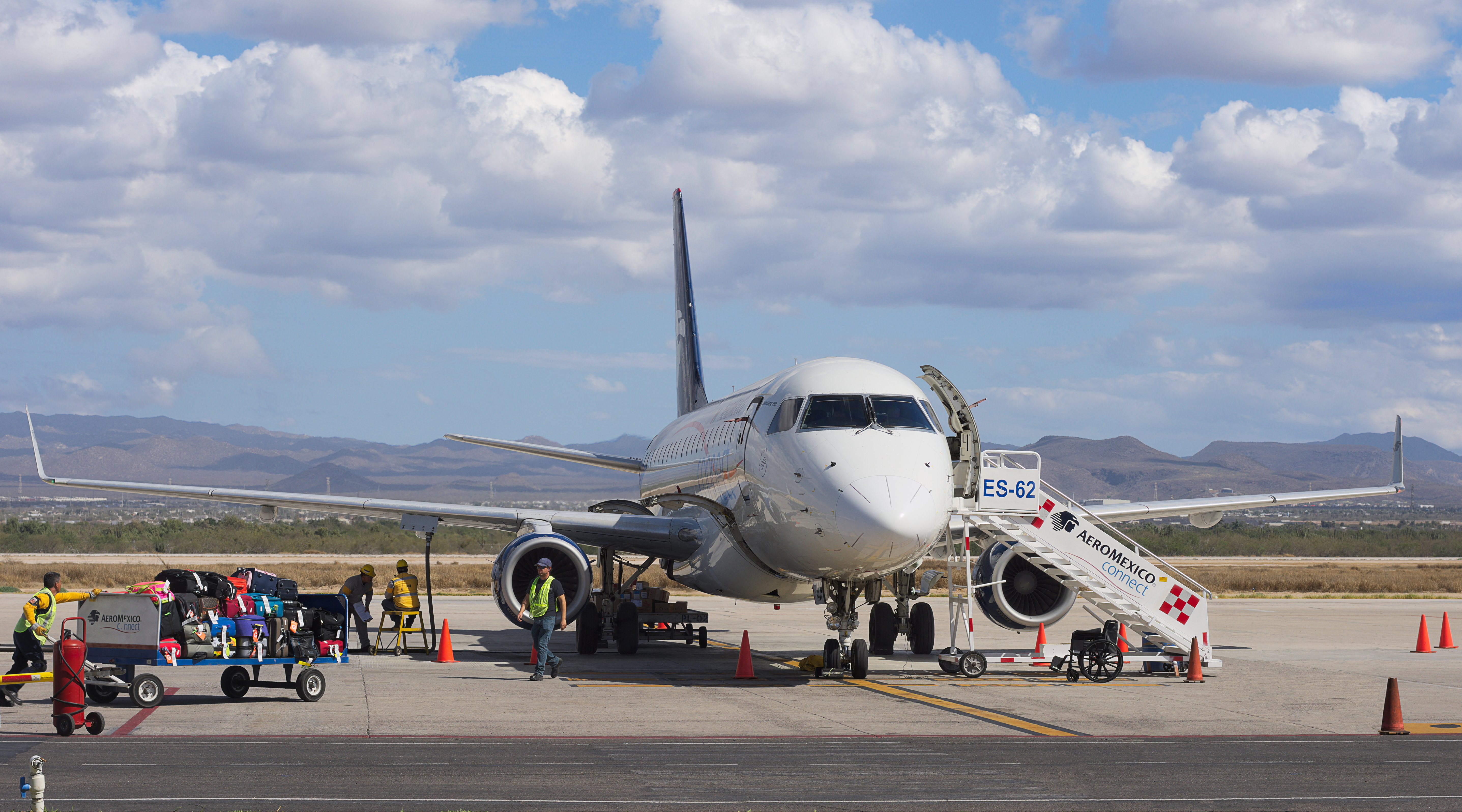 Embraer 170, Aeromexico, in La Paz airport, Baja California, Mexicco